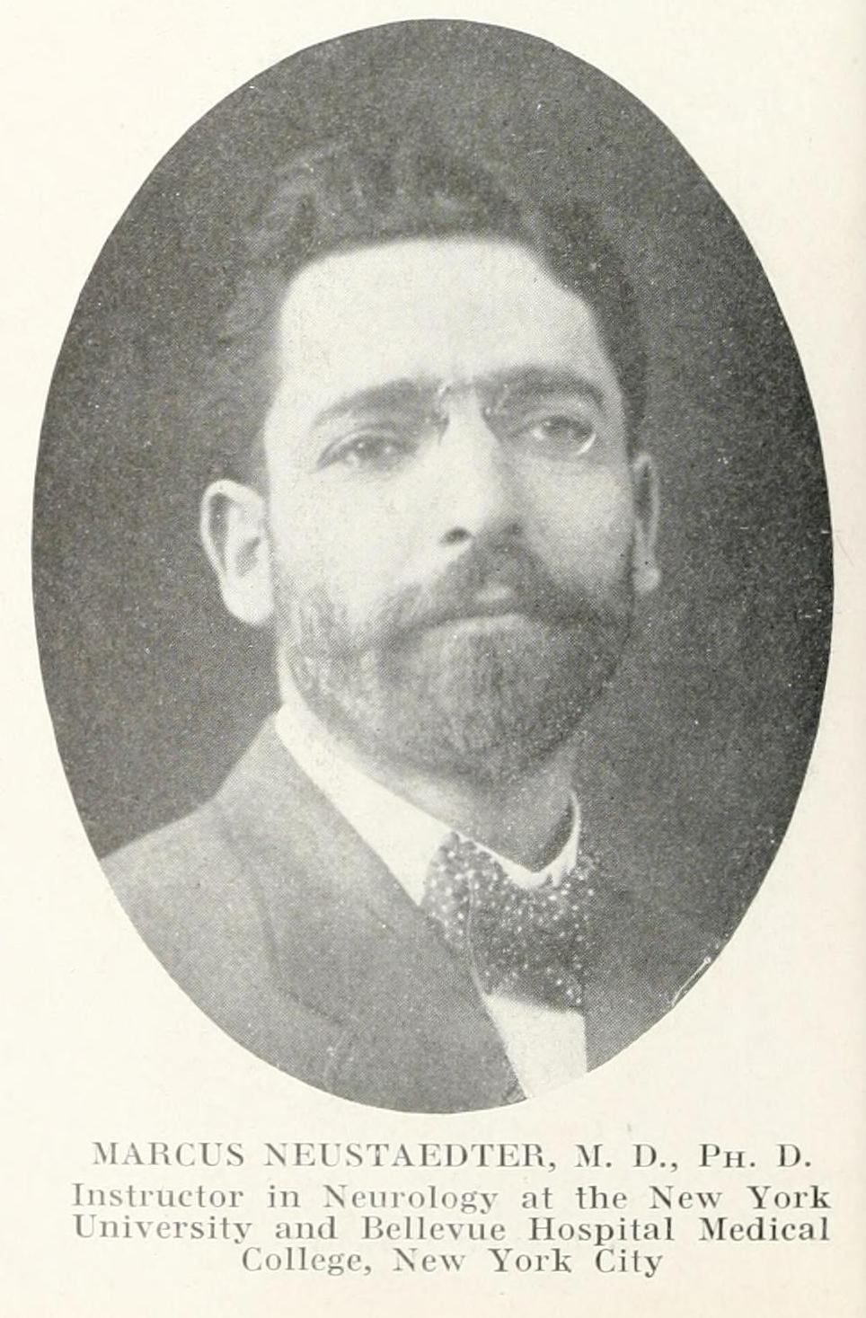 Marcus_Neustaedter